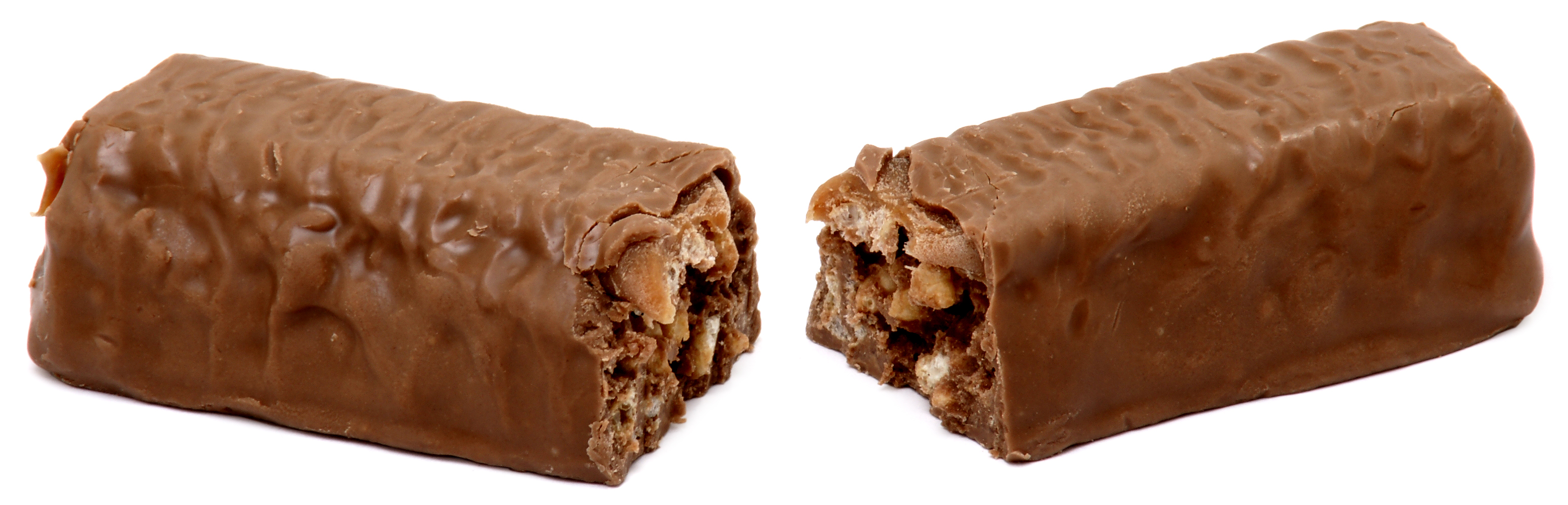 A Nestle Toffee Crisp candy bar split in half.